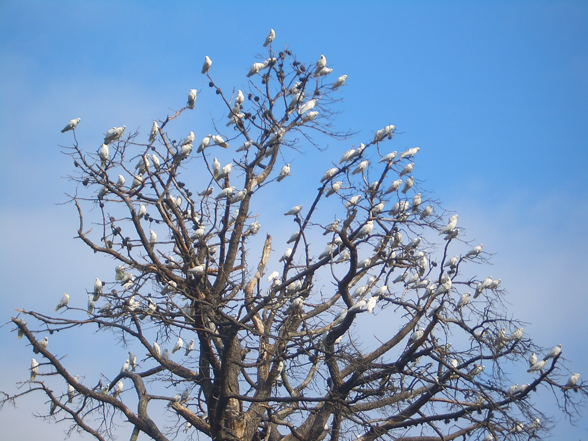 Sulphur-crested cockatoos in Stratford, Victoria